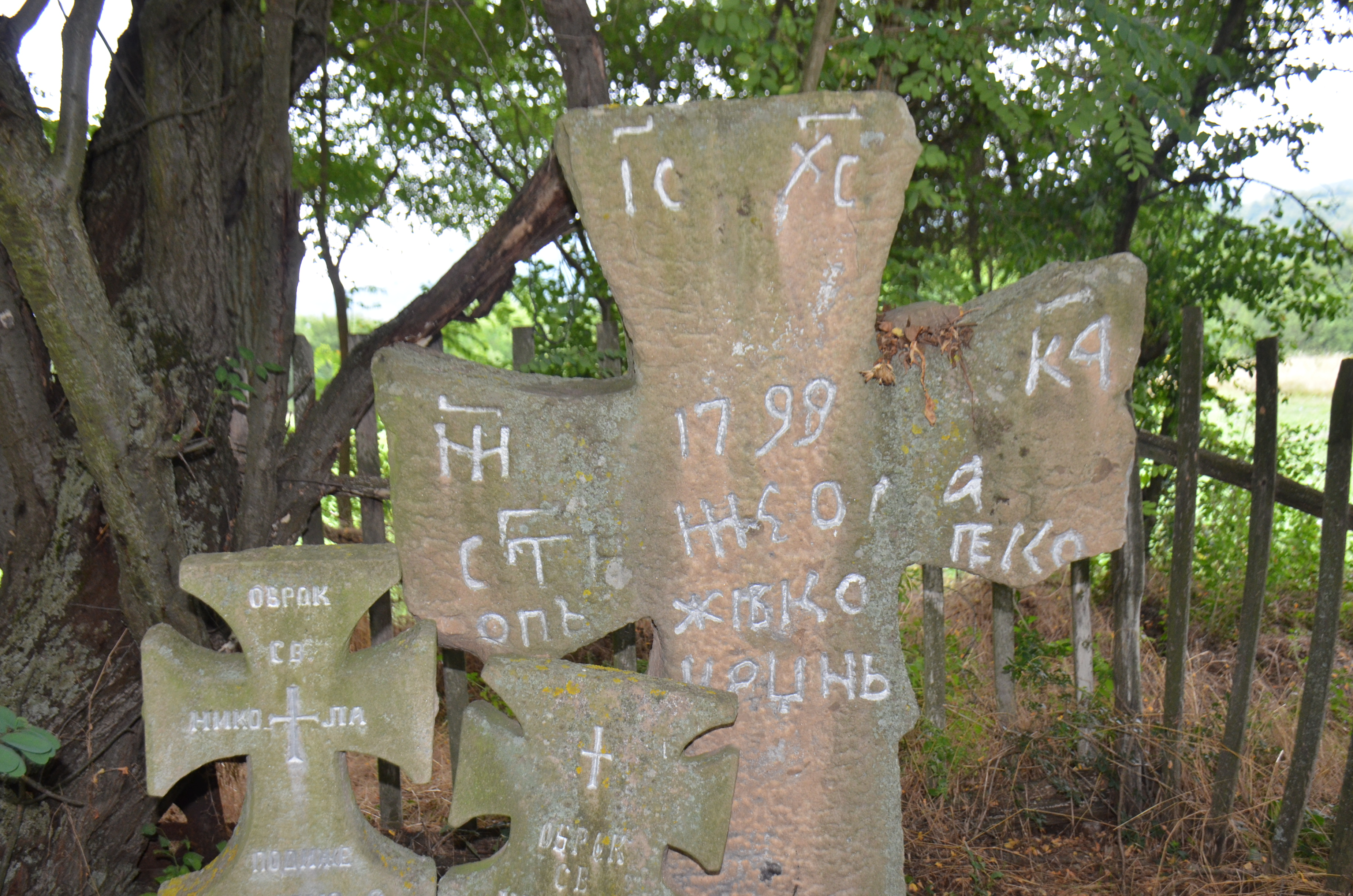 Obrok - Sacred Stone Cross, a stone cross in village Temska, municipality Pirot, Serbia Srpski (latinica): Оbrok Sveti Nikola 1799, selo Temska, Opština Pirot, Pirotski okrug, Srbija Српски (ћирилица): Оброк Свети Никола 1799, село Темска, Општина Пирот, Пиротски округ, Србија